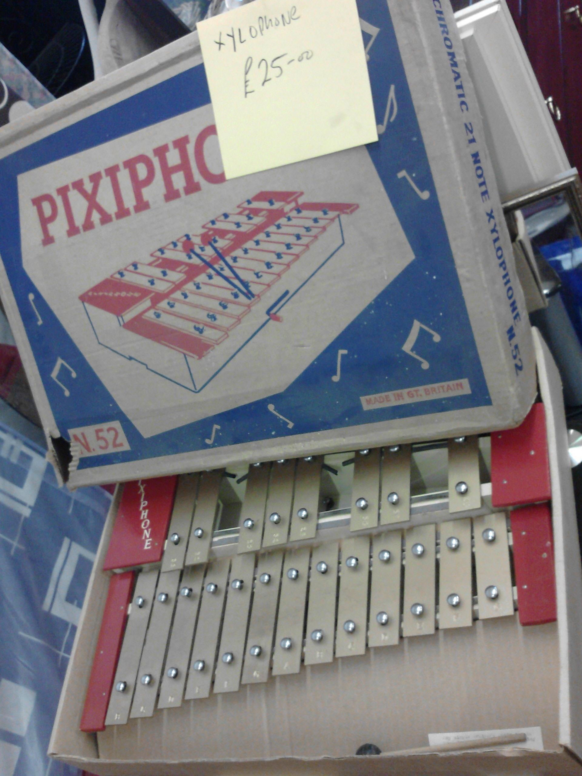 Pixiphone, in the White Elephant shop, Trowbridge.